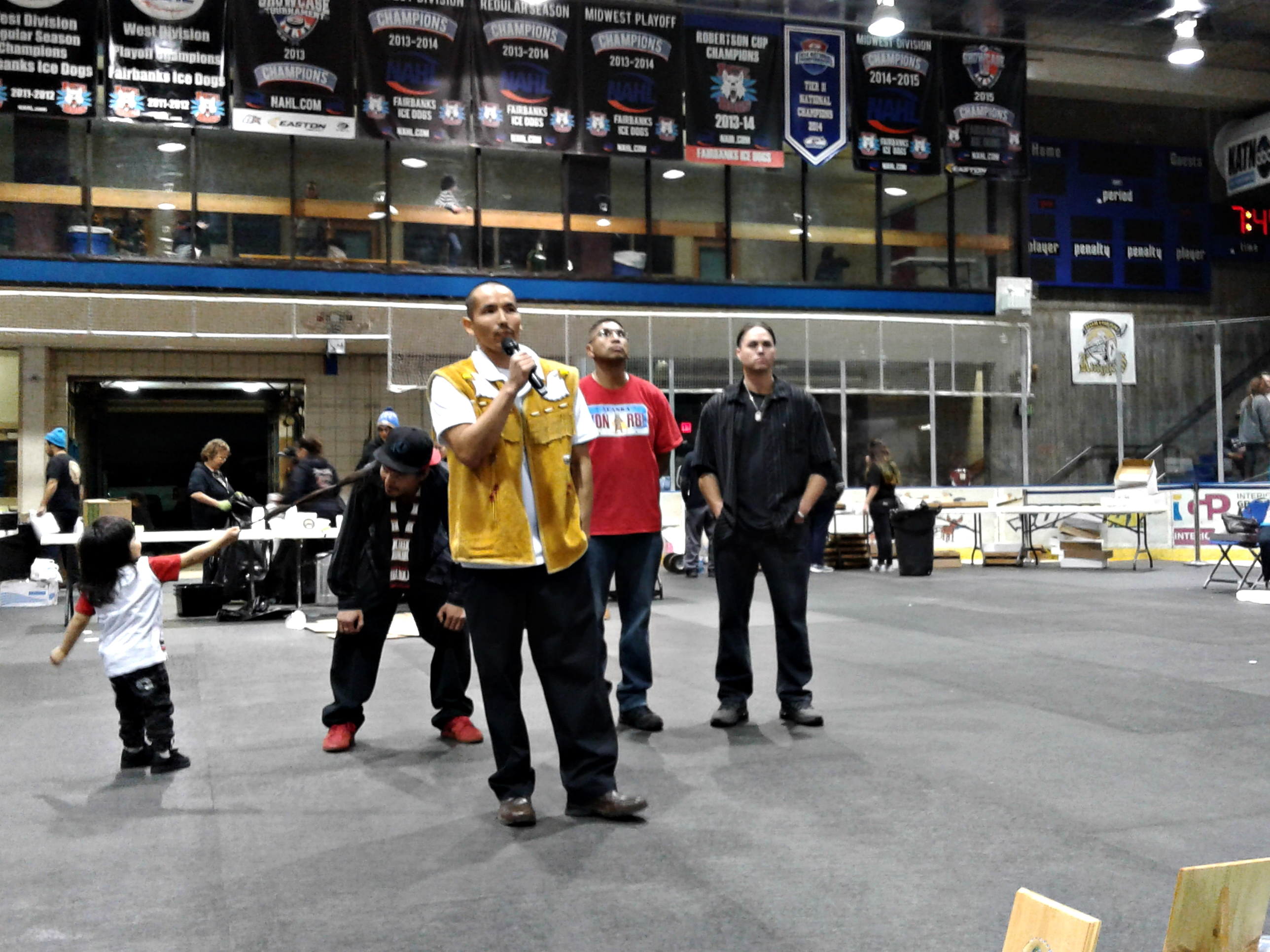 The "Fairbanks Four", a group of Alaska Natives who were convicted of murdering a fellow teenager in the late 1990s and exonerated after 18 years of incarceration, appear at the Big Dipper Ice Arena in Fairbanks, Alaska on October 19, 2016. The occasion was a potlatch, sponsored by Doyon, Limited, to honor the four and to welcome the Alaska Federation of Natives convention to Fairbanks. This is the sixth time in the 50-year history of AFN that their annual convention has been held in Fairbanks. In this photo, Marvin Roberts speaks to the crowd. Roberts was already paroled prior to the post-conviction relief hearing which led to the other three men (standing behind Roberts, from left: George Frese, Eugene Vent and Kevin Pease) being freed. Vent is wearing a T-shirt with a design in the style of an Alaska license plate, bearing a "license number" of "XONR8!"